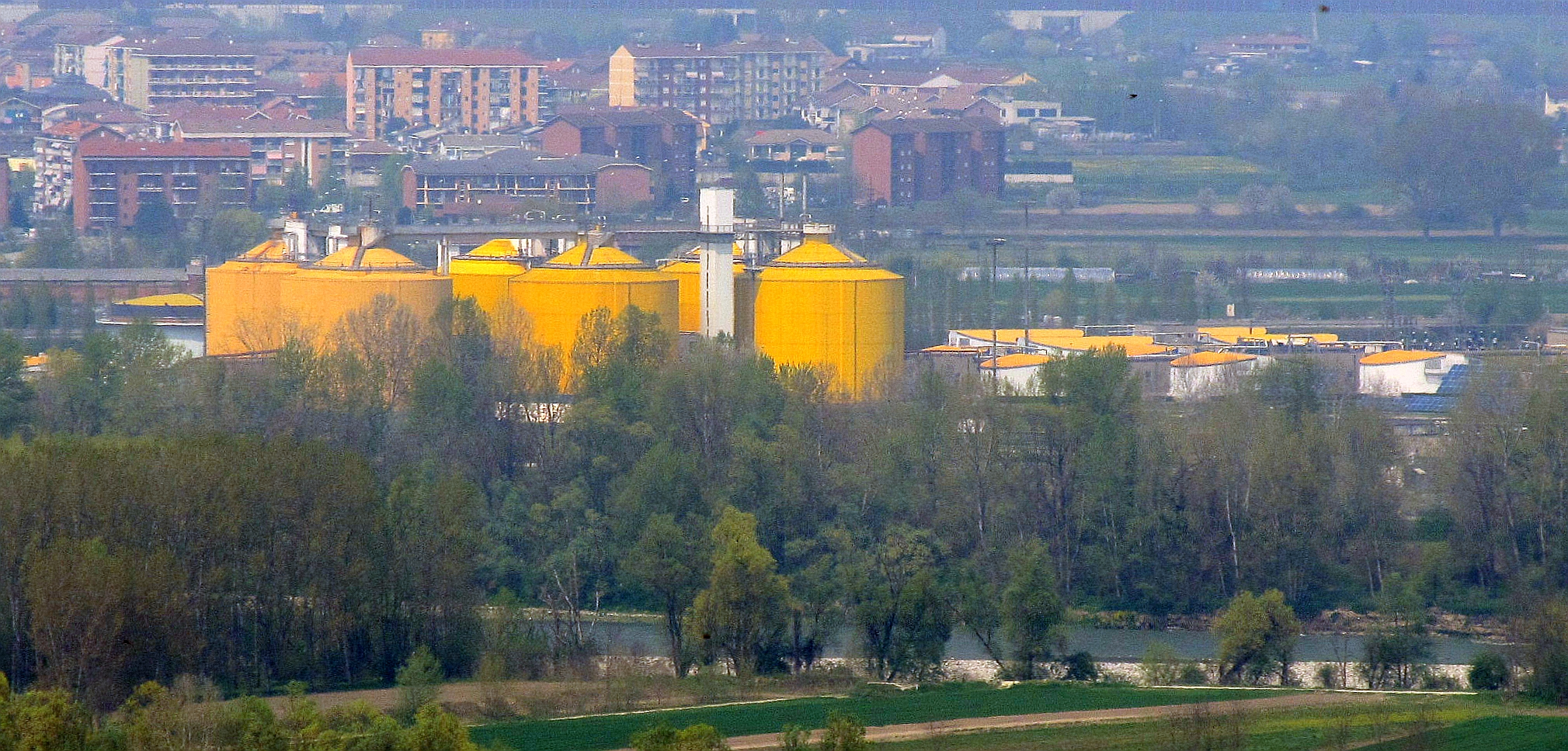 SMAT wastewater treatment plant (Castiglione Torinese, TO, Italy) seen from Castiglione Alto